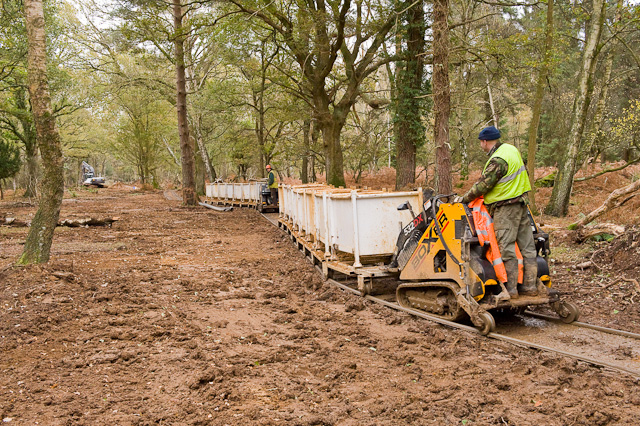 Warwickslade Cutting: repositioned railway